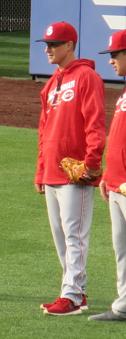 Layne Somsen with the Cincinnati Reds during pre-game warmups, April 25, 2016.